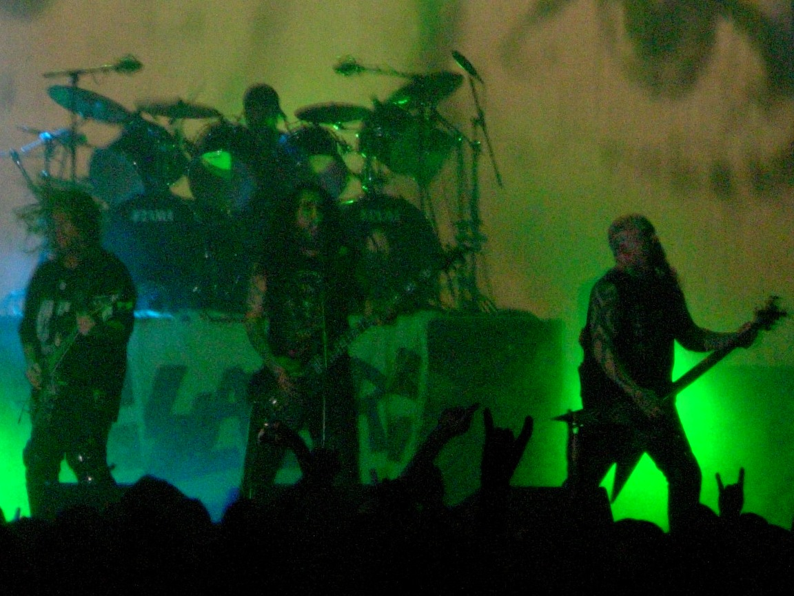 Slayer performing at the Unholy Alliance tour in 2006